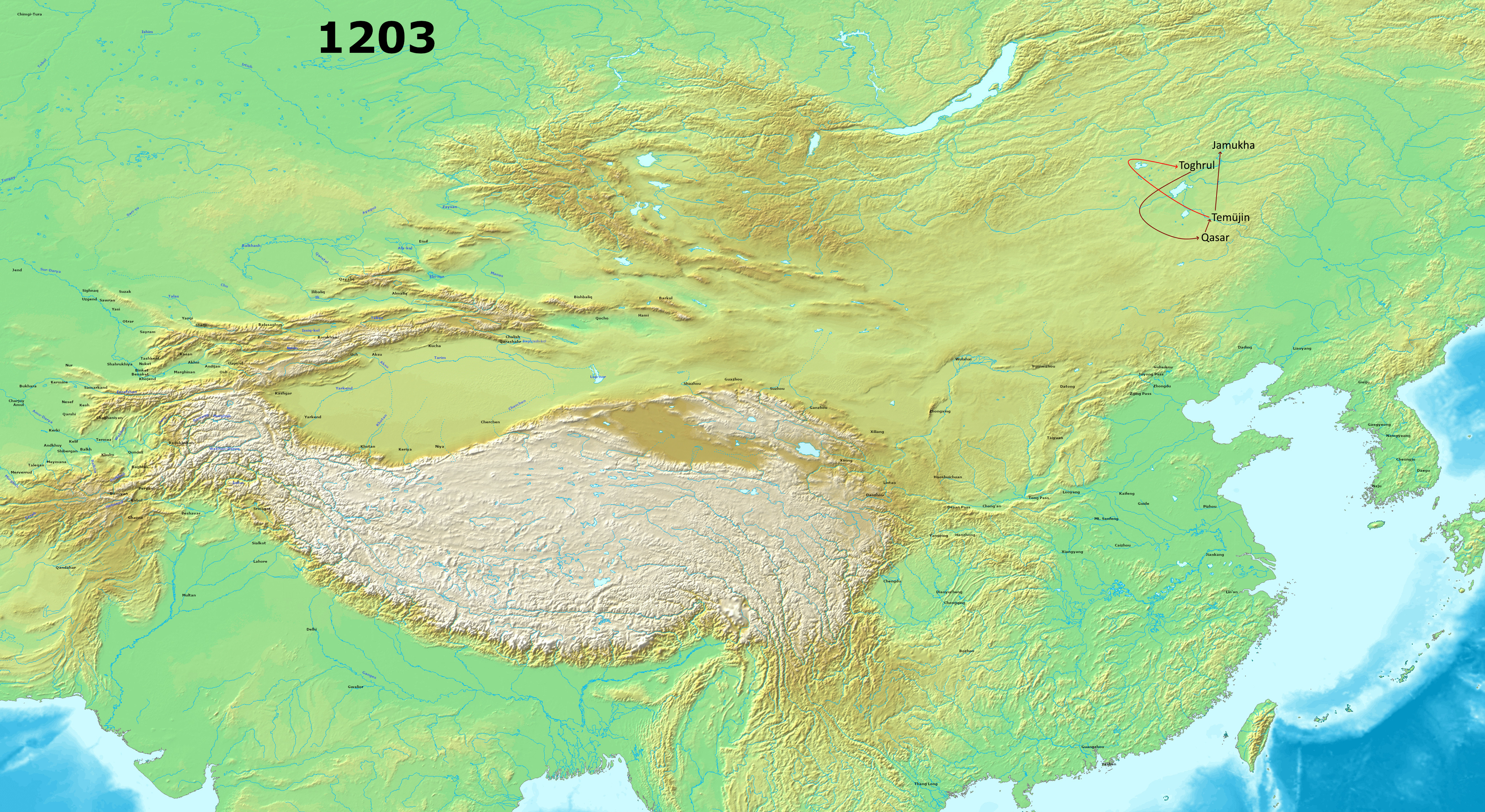 1203 Mongol War